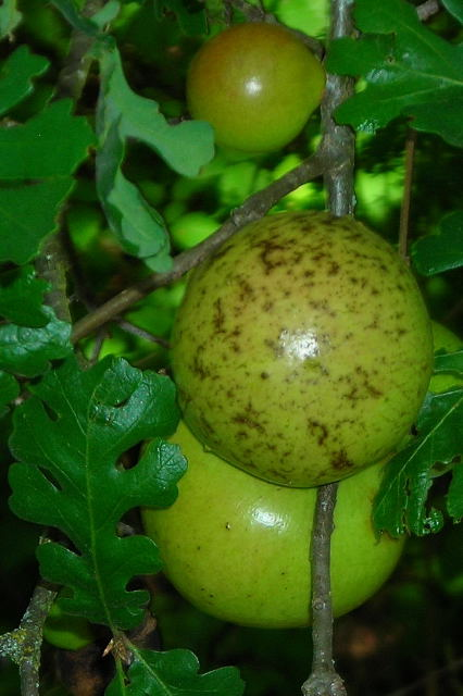 Newly formed galls on Quercus lobata in Monte Sereno, California.